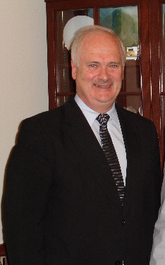 John Bruton, EU Ambassador to the US and Fmr. Irish Prime Minister.